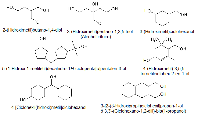 Polyol examples scheme